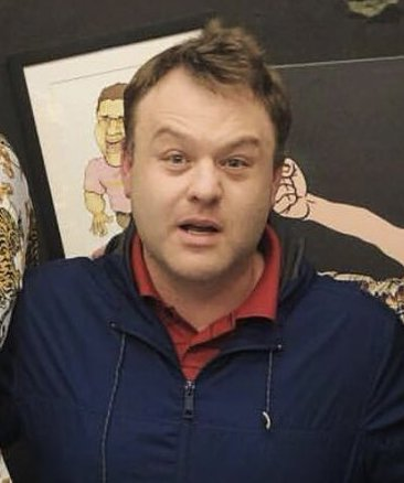 pardonmytake